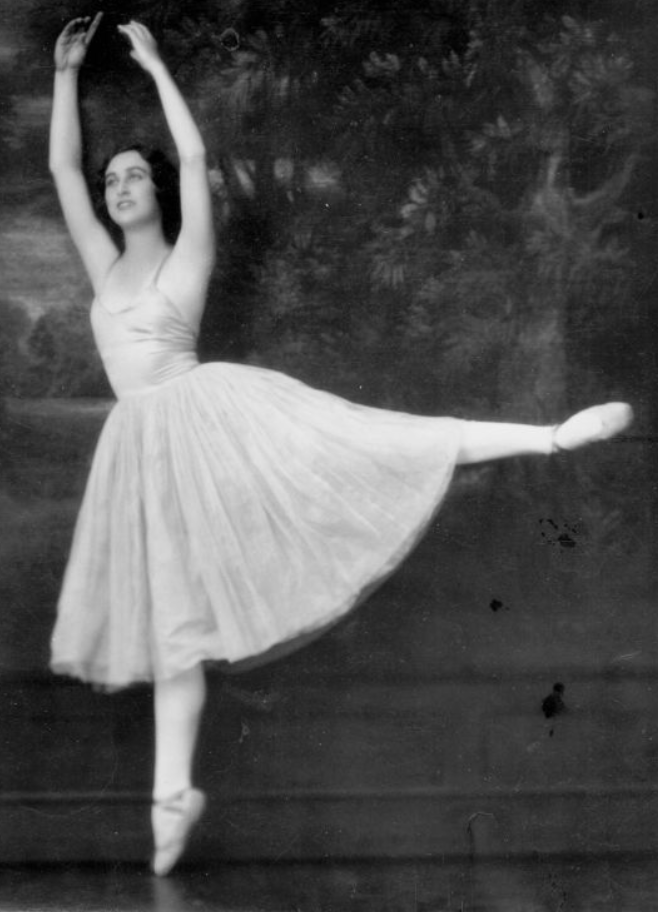 Phyllis May Danaher (1908-1991), Australian dancer, choreographer, ballet and dance teacher and examiner